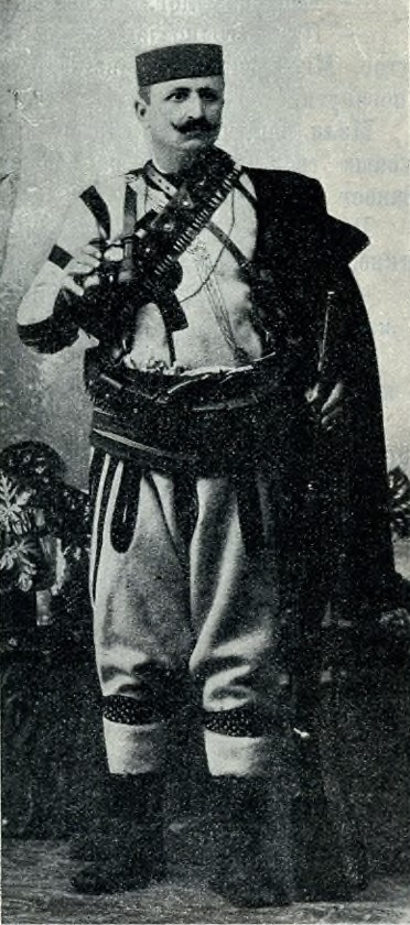 Đorđe Cvetković-Drimkolski (1860-1905)